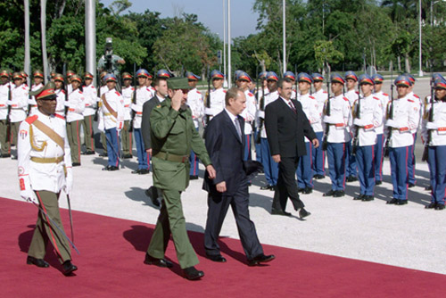 HAVANA. Official welcoming ceremony.